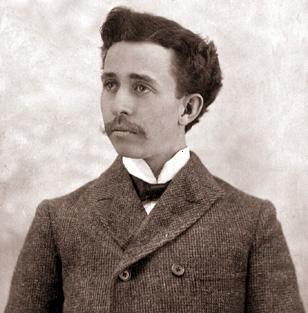 James Cash Penney circa 1902